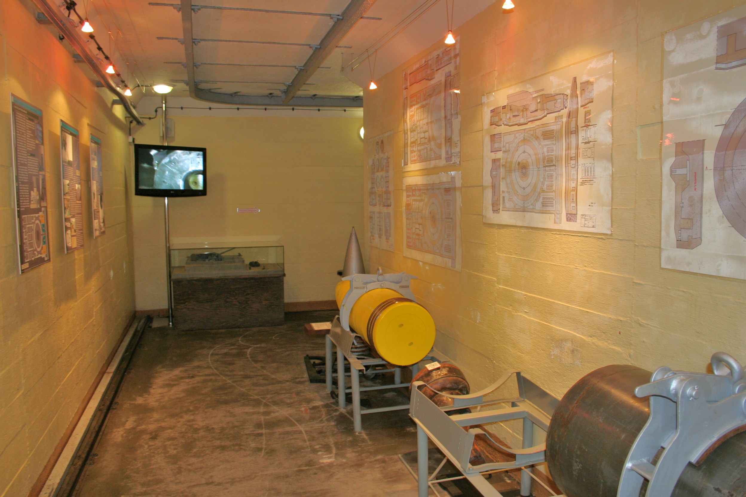 Collections of Museum of Coastal Defence.